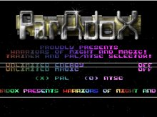 Photo of Paradox Crack